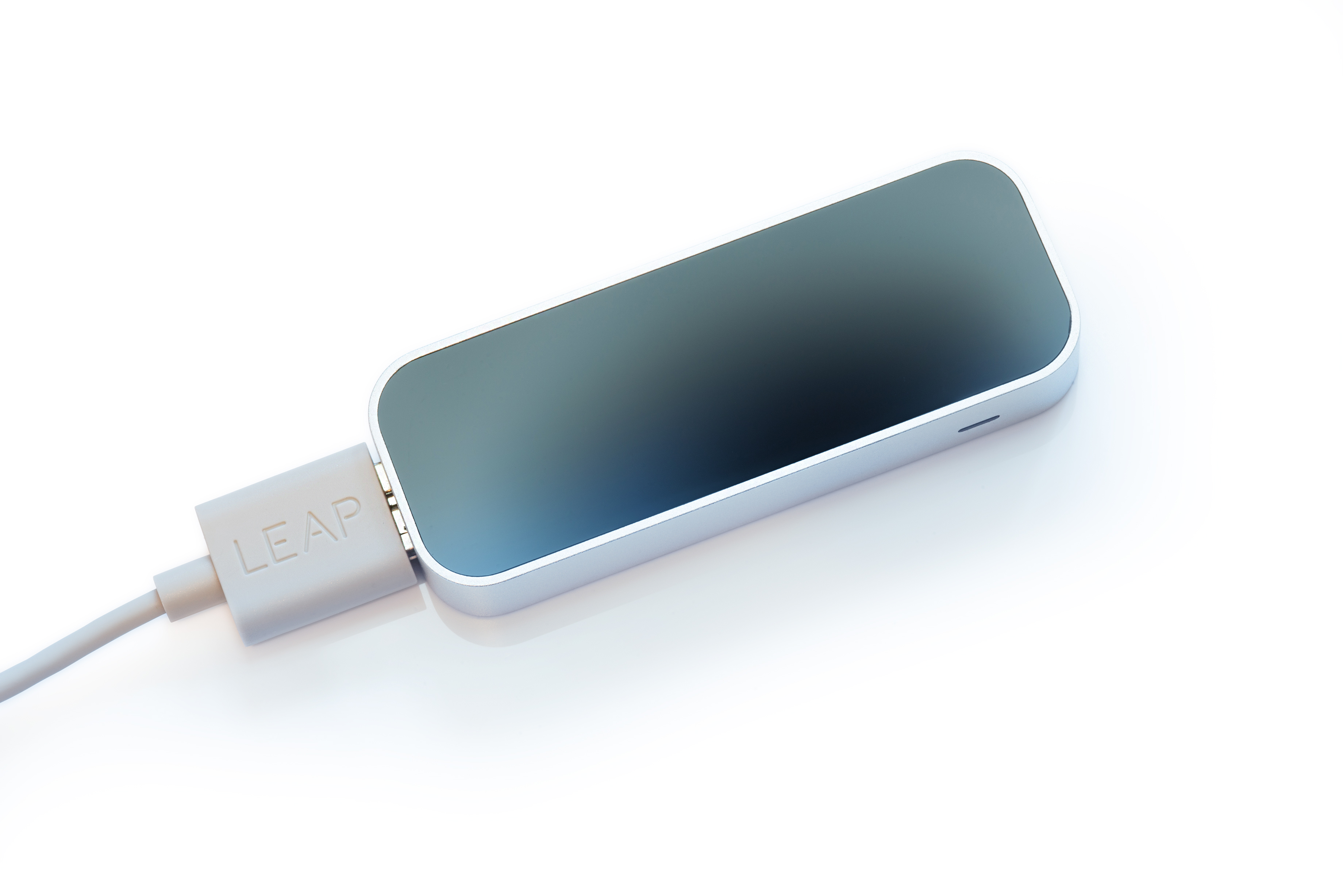 Leap Motion Orion controller connected